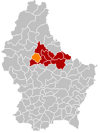 Own edit of Kanton DiekirchLocatie.png